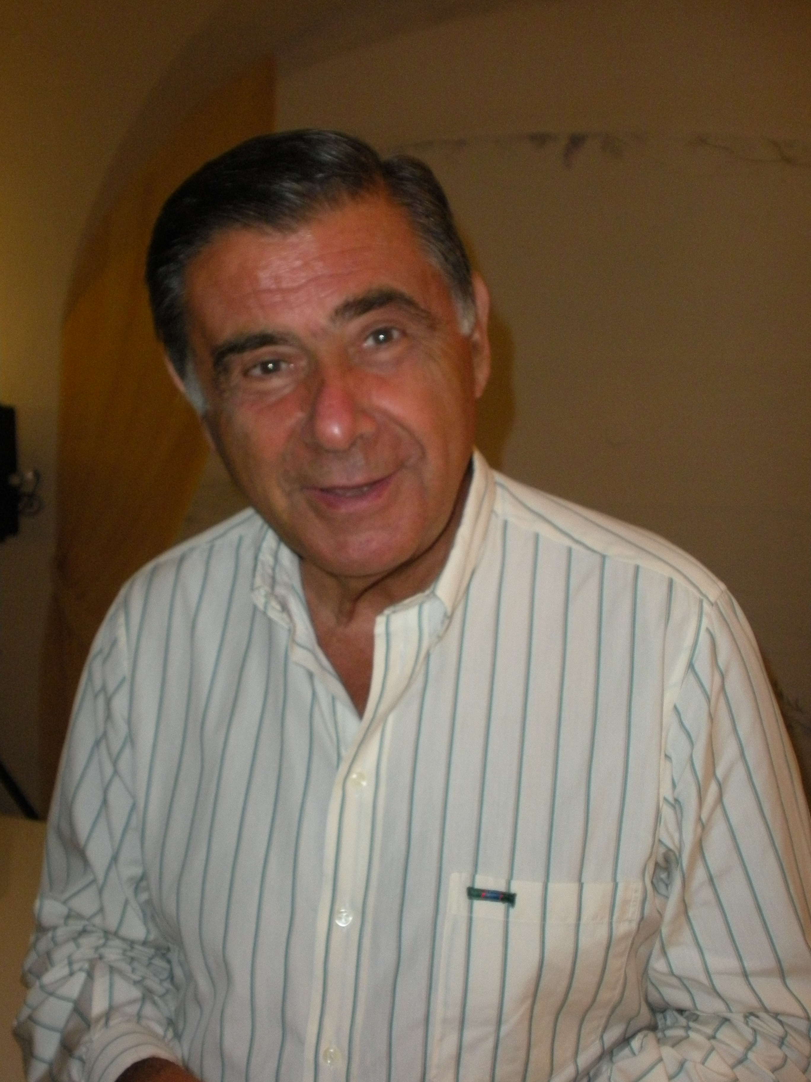 Francesco D'Onofrio, Italian politician.